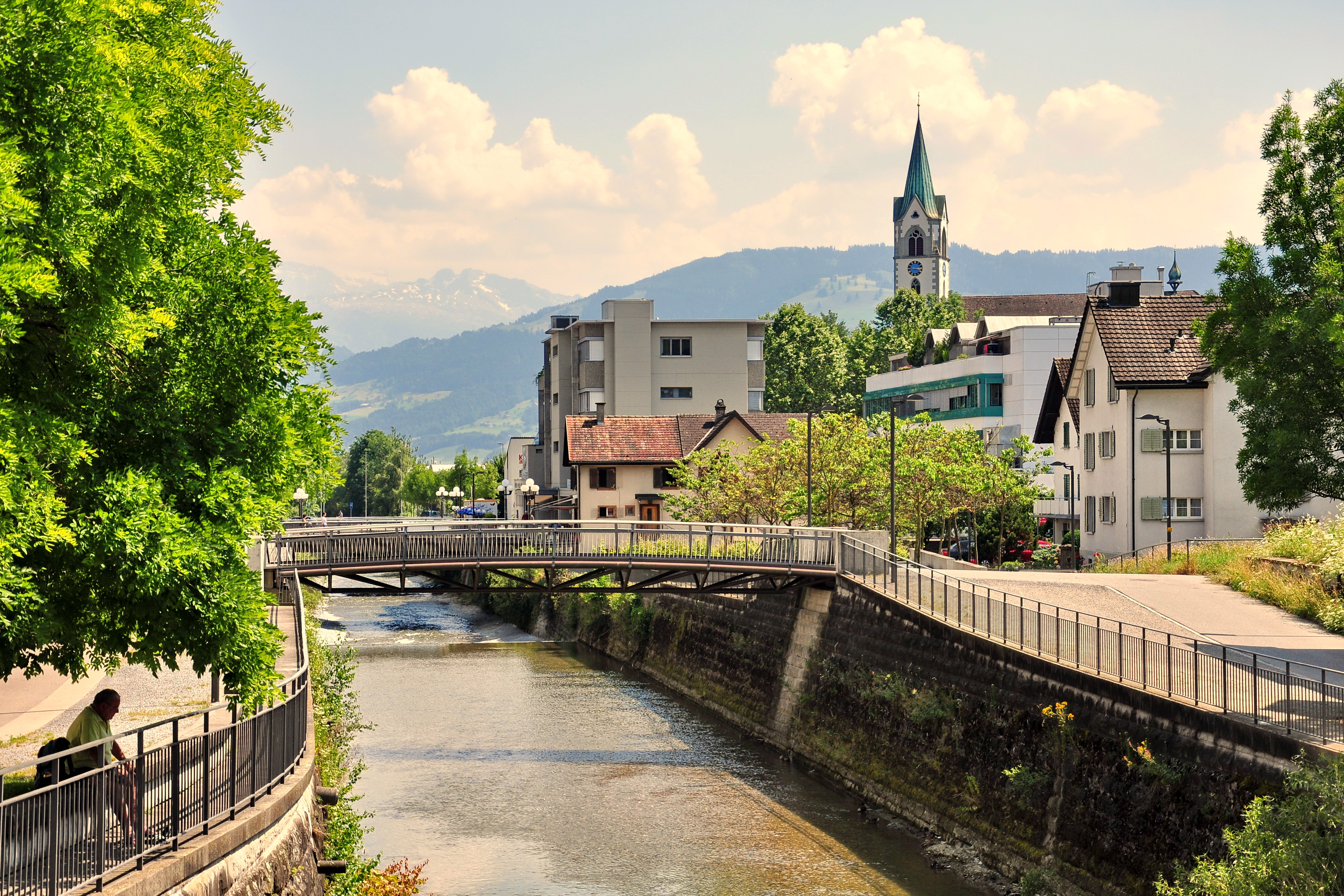 Jona river in Jona (SG), Mariae Himmelfahrt & St. Valentin in the background (to the right).